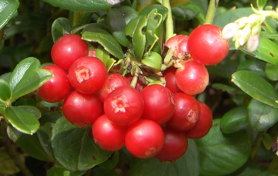 cowberries